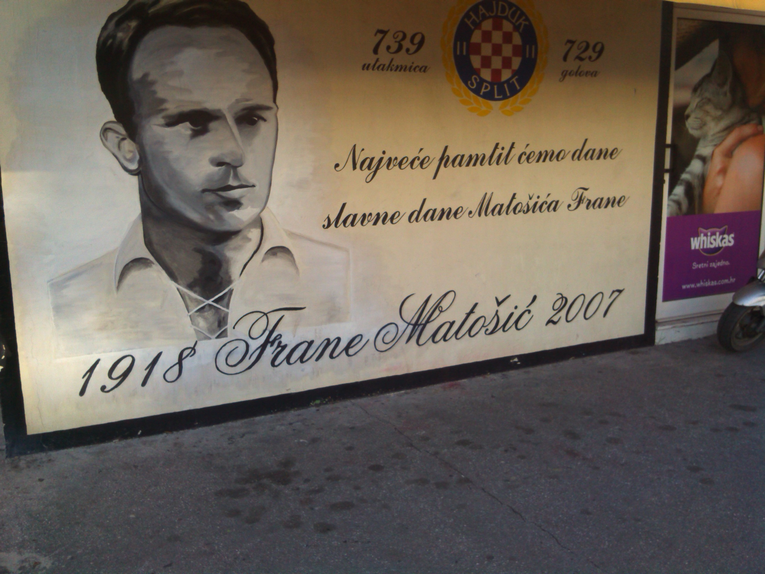 Graffiti, Frane Matošić, Split